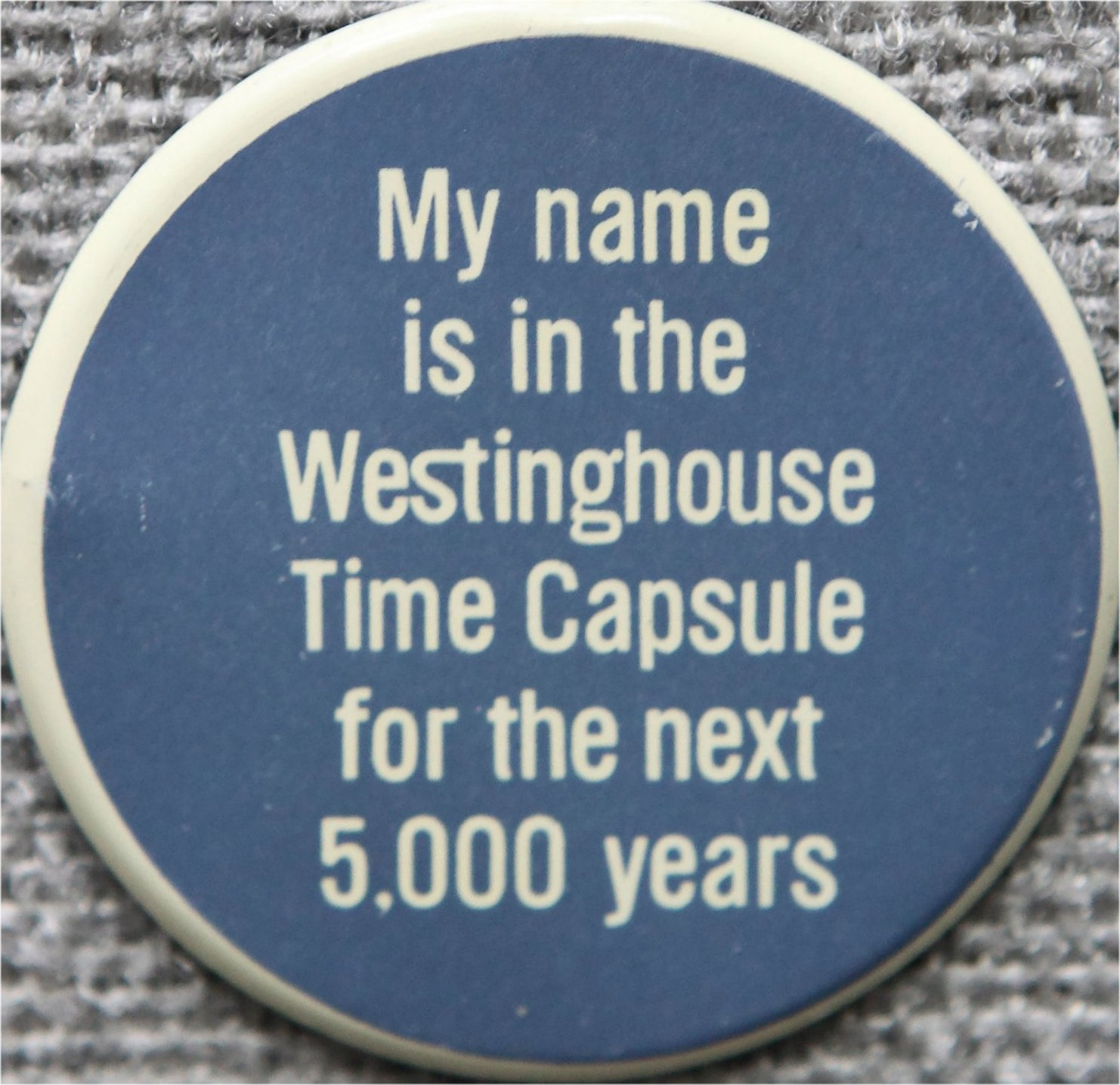 pin given to signer of Guest Book at Westinghouse pavilion